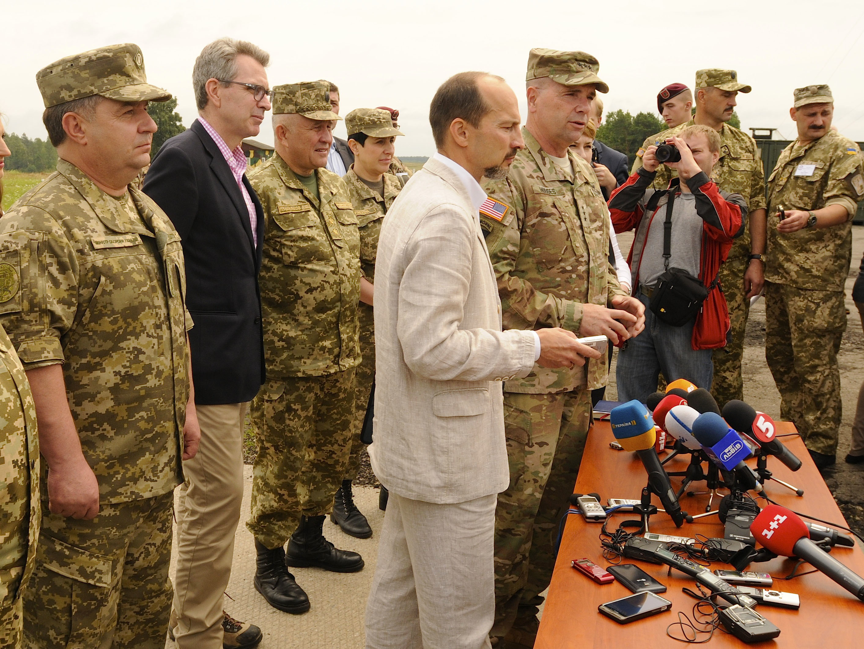 Lt. Gen. Ben Hodges (center), commander U.S. Army Europe, addresses the media while Ukrainian Minister of Defense Col. Gen. Stepan Poltorak (left) and United States Ambassador to Ukraine Geoffrey R. Pyatt (2nd to left) look during the distinguished visitor day press conference during the multinational exercise Rapid Trident 2015 at the at the International Peacekeeping and Security Center near Yavoriv, Ukraine, July 24, 2015. Rapid Trident is a long-standing U.S. Army Europe-led cooperative training exercise focused on peacekeeping and stability operations. More than 1,800 personnel from 18 different nations are participating in the exercise. (Photo by U.S. Army Sgt. 1st Class Walter E. van Ochten)